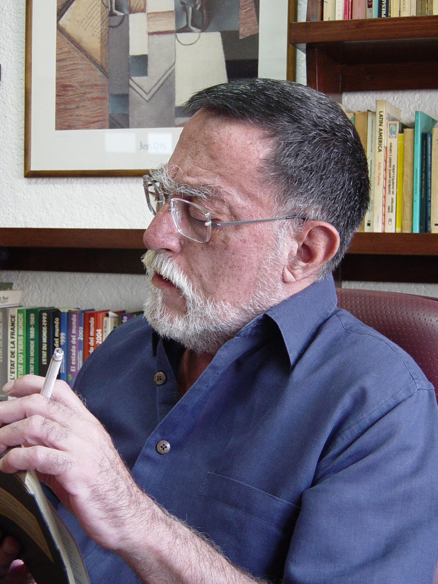 Octavio Rodríguez Araujo 2013